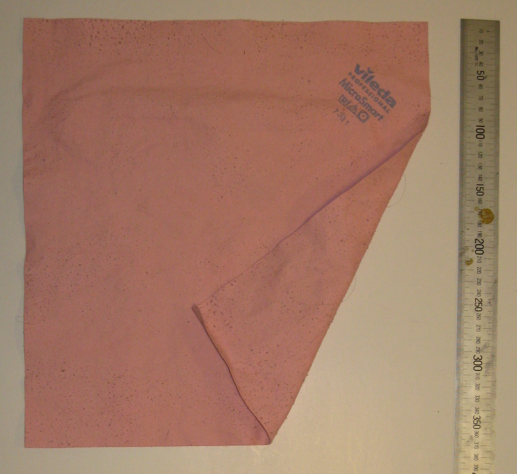 A microfiber cloth for moist use, flat type. Suitable for cleanin plasma screns and tiles.